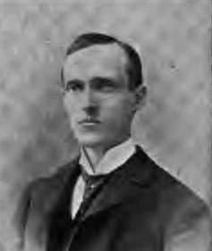 Portrait of New York state senator Frank D. Pavey